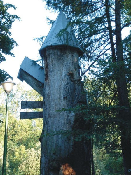 Poręba Wielka